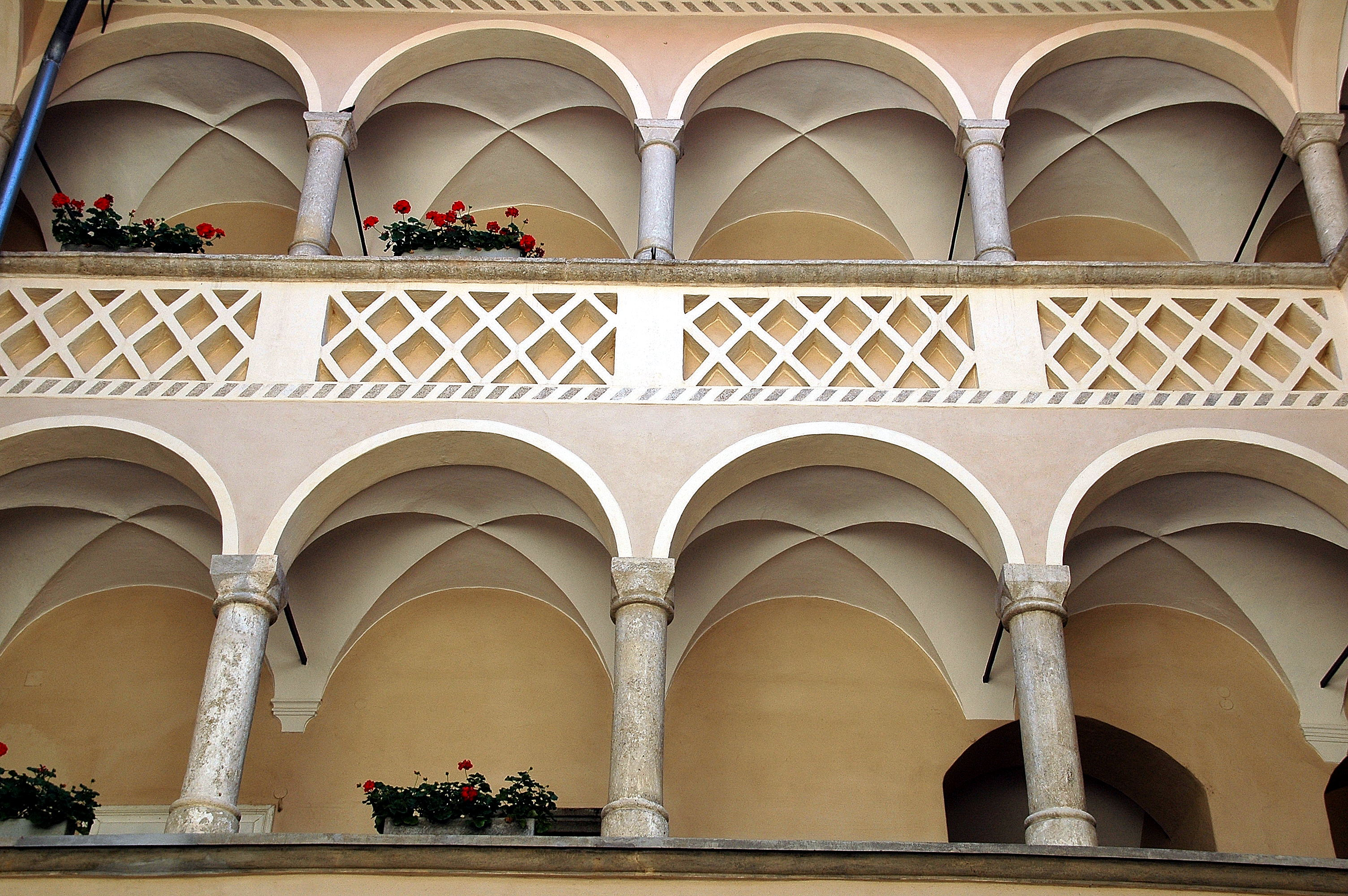 Arcade yard of the old guildhall on the Alter Platz #1, “Inner City” of the Carinthian capital Klagenfurt, Carinthia, Austria